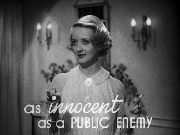 Frame from public domain trailer for Warner Bros. 1936 film Satan Met a Lady showing Bette Davis with type: "Innocent as a public enemy".